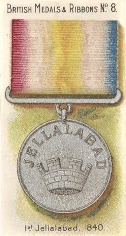 1890's cigarette card depicting the obverse of the Jellalabad Medal (1st version). Awarded for the siege of Jellalabad, first Afghan War, 1842.